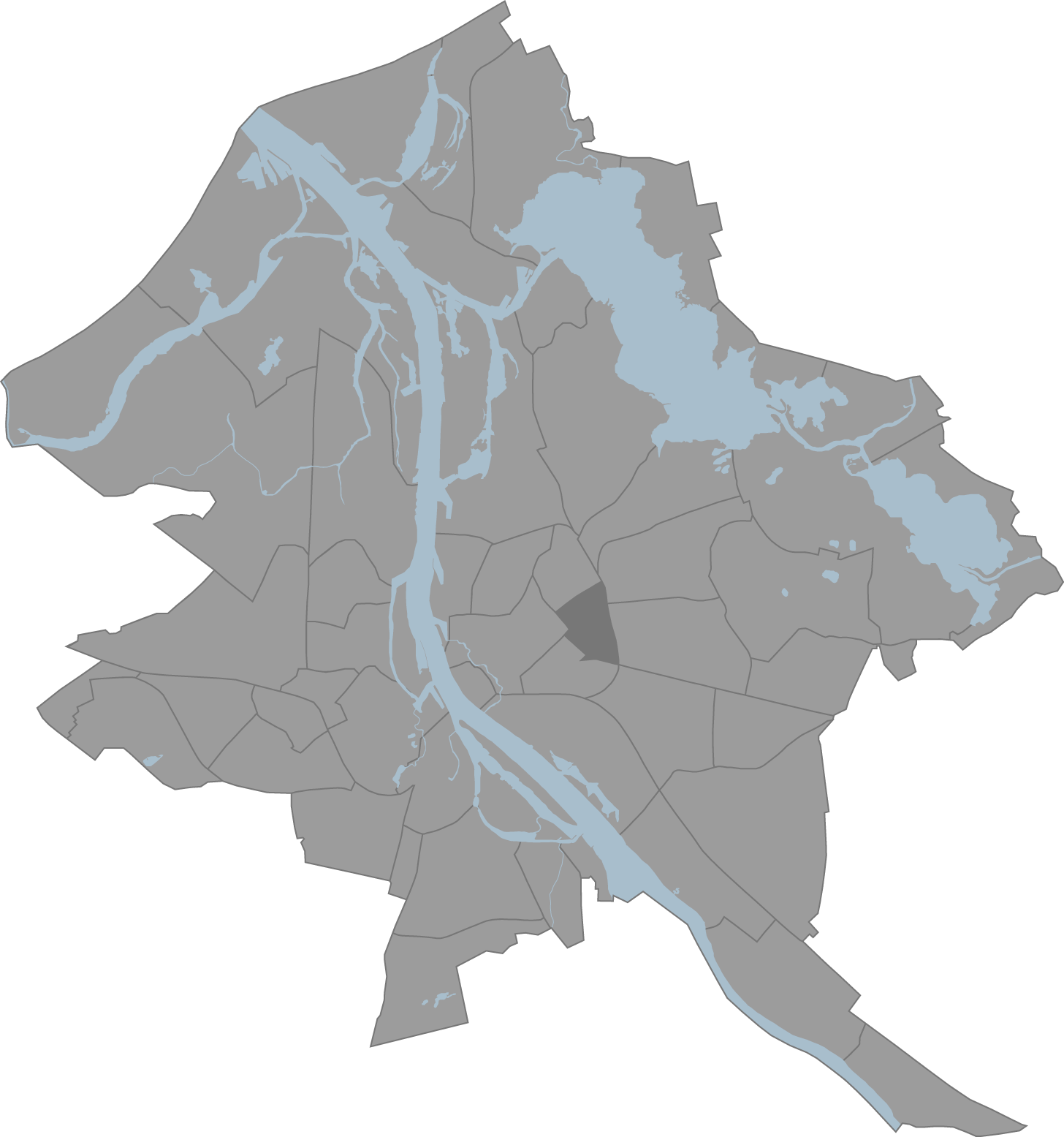 A map of Riga, Latvia with the eponymous commune highlighted